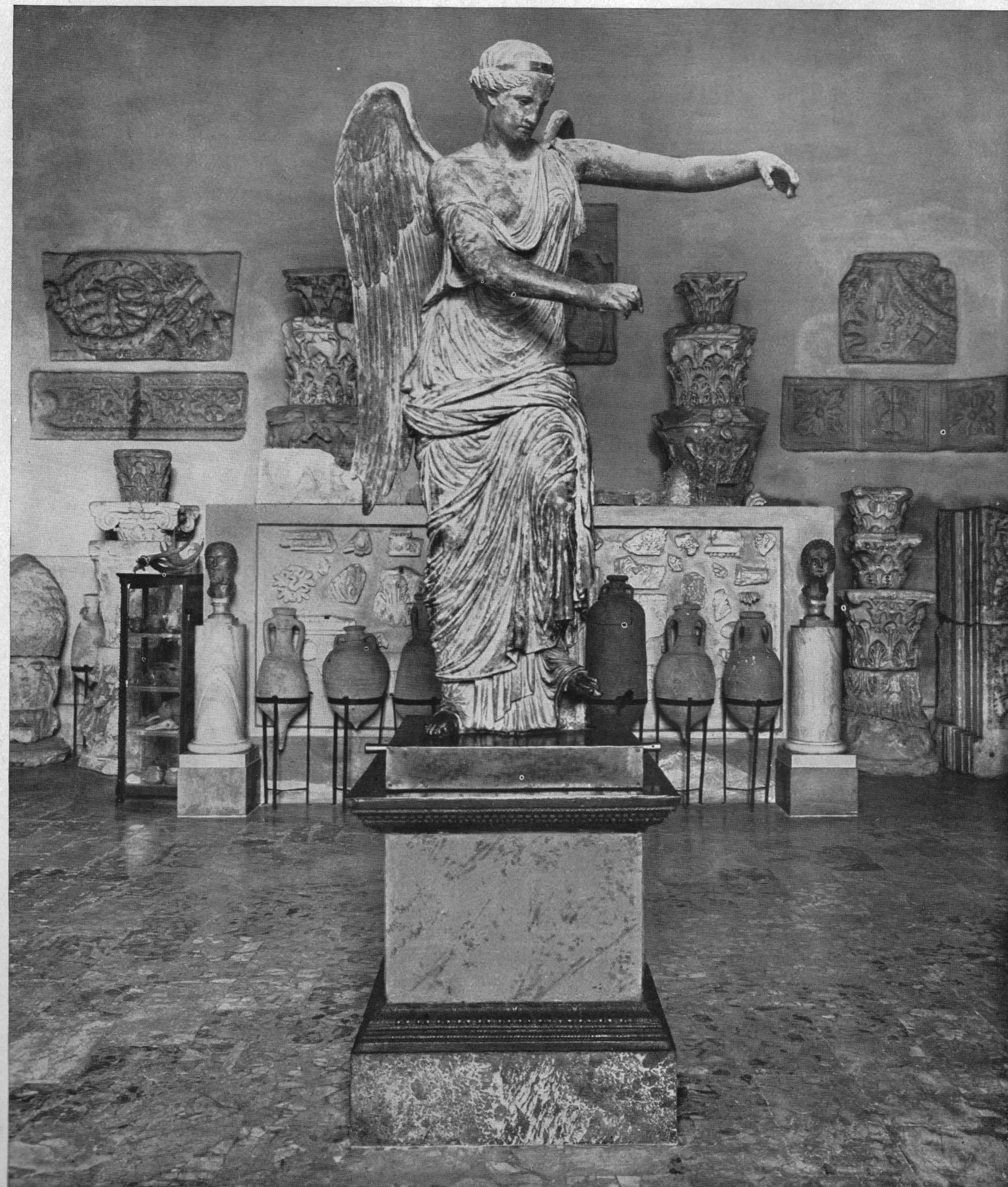 The winged Victory, bronze statue, Brescia.